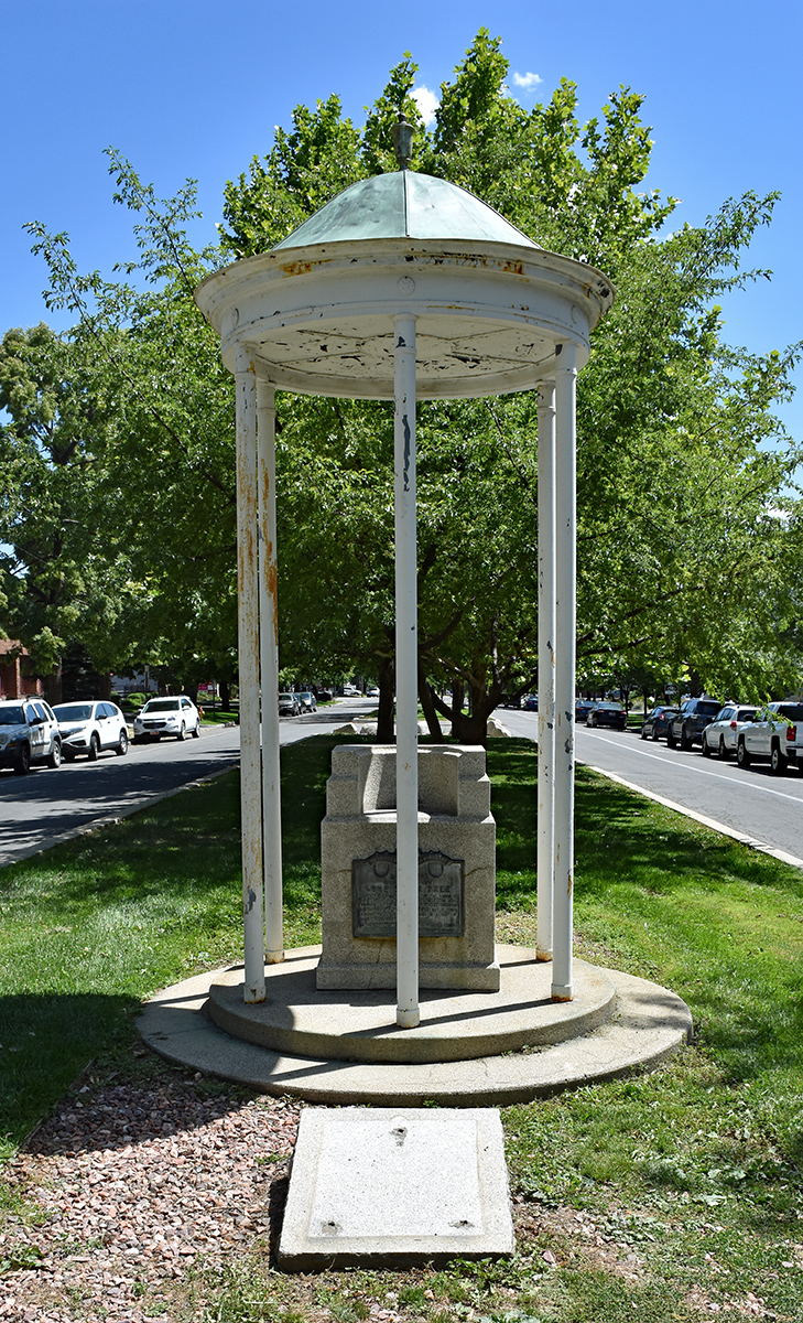 Monument erected near the site of the "Lone Cedar Tree," a landmark in early Salt Lake City history. The remains of the tree, once housed beneath the canopy, are long gone. The tree once stood on the corner of 300 South and 600 East, somewhat to the north of the present monument.